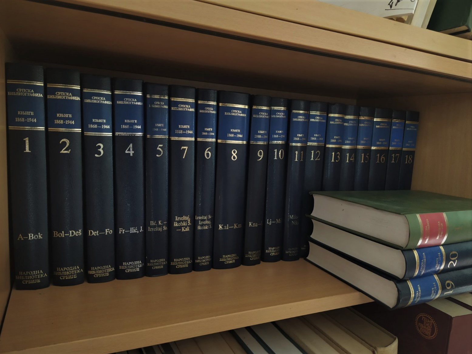 Twenty volumes of "The Serbian Bibliography. Books 1868–1944" in the Society for Culture, Art and International Cooperation Adligat in Belgrade, Serbia. Српски (ћирилица): Двадесет томова „Српске ретроспективне библиографије. Књиге 1868–1944" у Удружењу за културу, уметност и међународну сарадњу „Адлигат” у Београду.